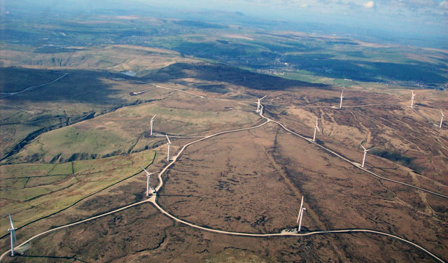 Aerial View of Scout Moor Wind Farm, in North West England. When this picture was taken construction of the Scout Moor Wind Farm was two thirds complete with all the turbines on the East side of the moor completed. From left to right are Turbine Tower Nos 3,7,12,8,16,6,15,21,10,25 and 19.